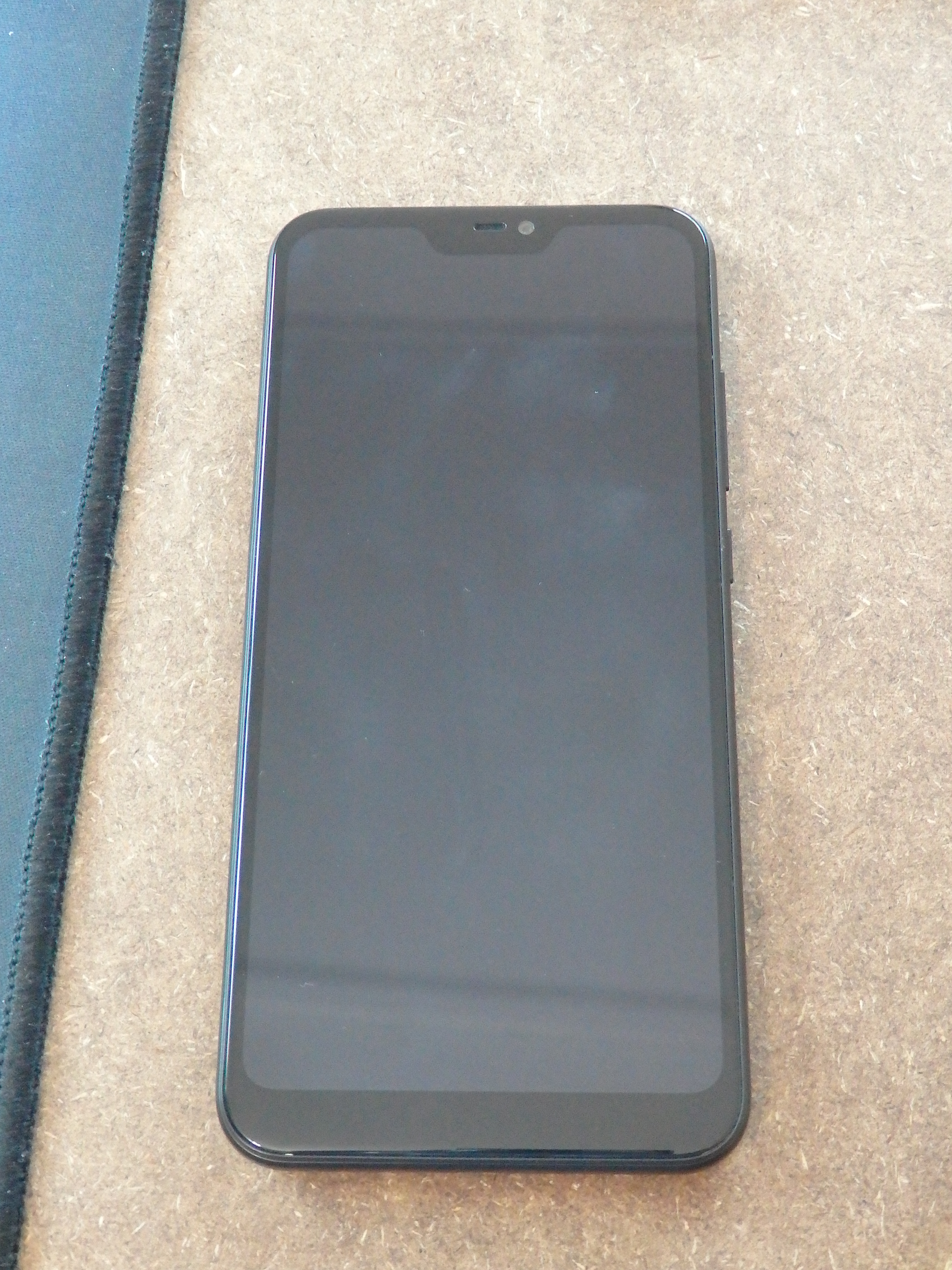 Front of a Xiaomi Mi A2 Lite. Screen turned off.